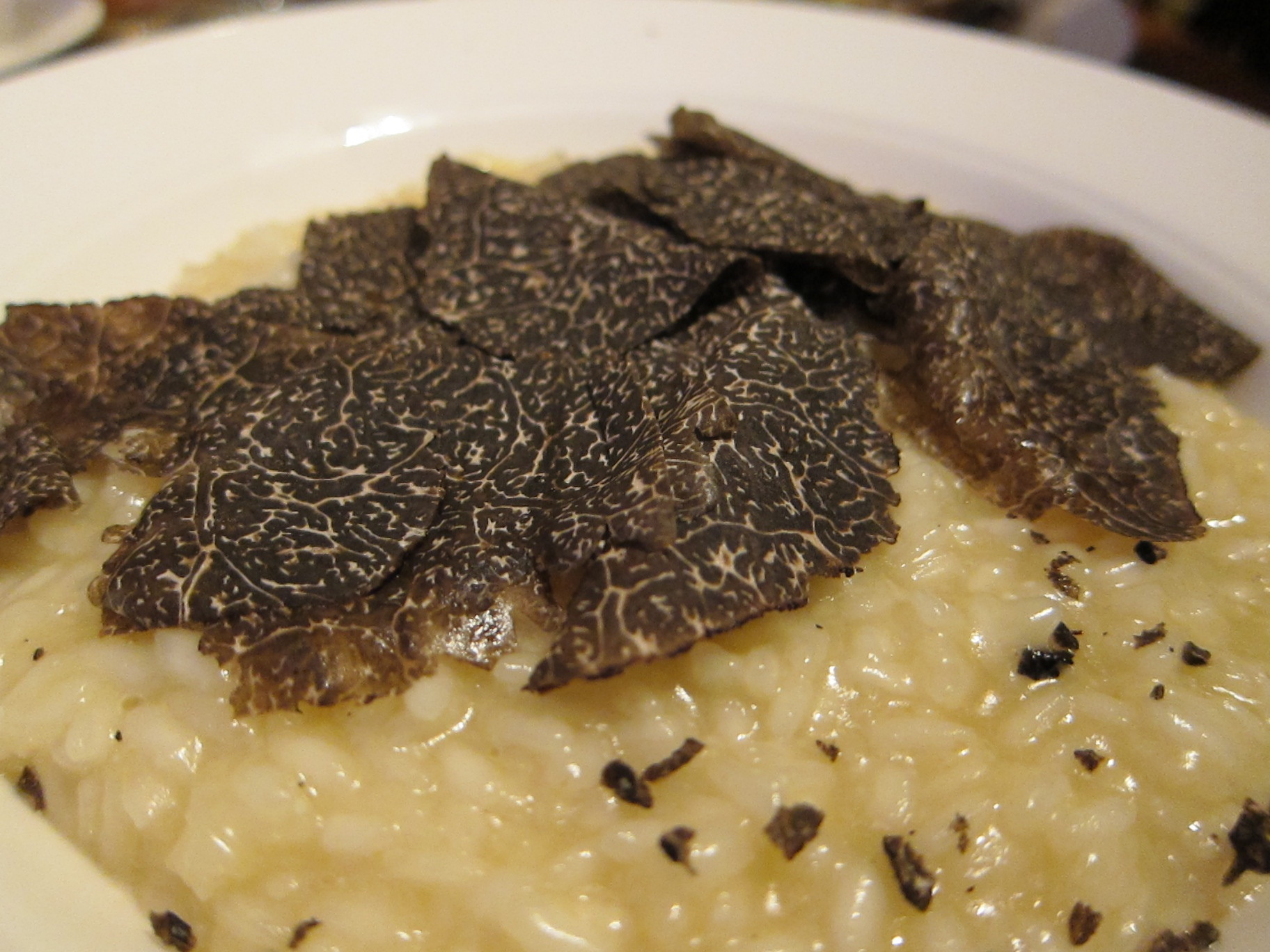 This is a picture of a Black Truffle Risotto.